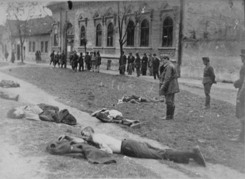 Subotica during the Hungarian occupation (1941-44). Dead bodies on Senćanski put.